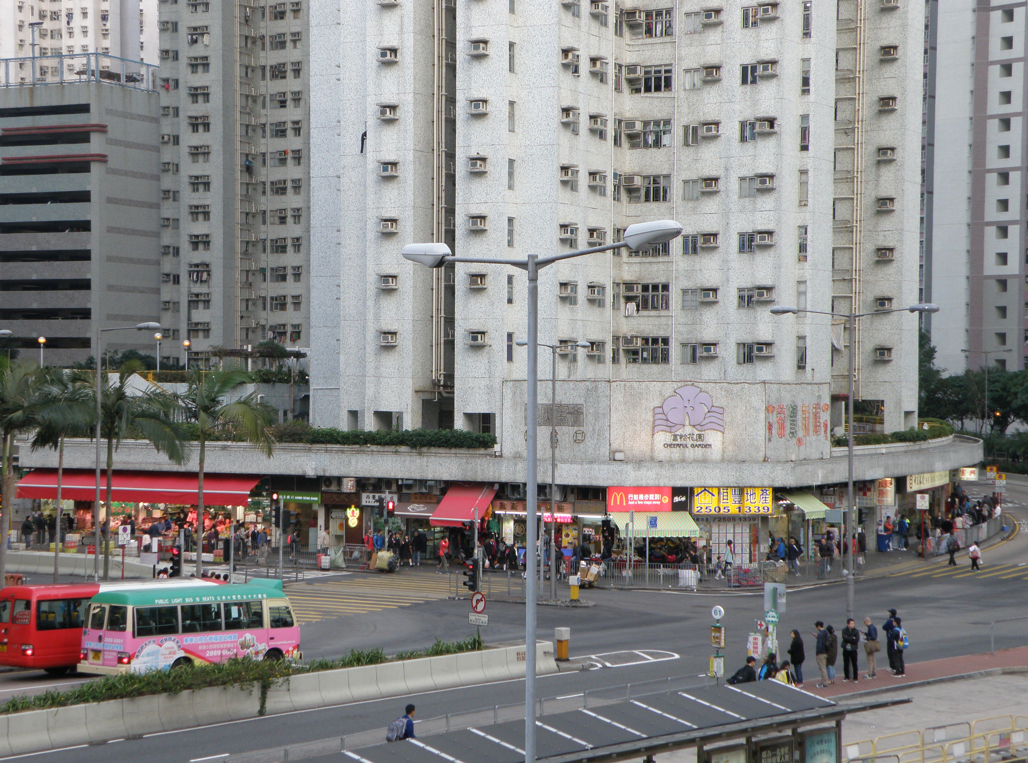 Cheerful Garden in Siu Sai Wan, Hong Kong.